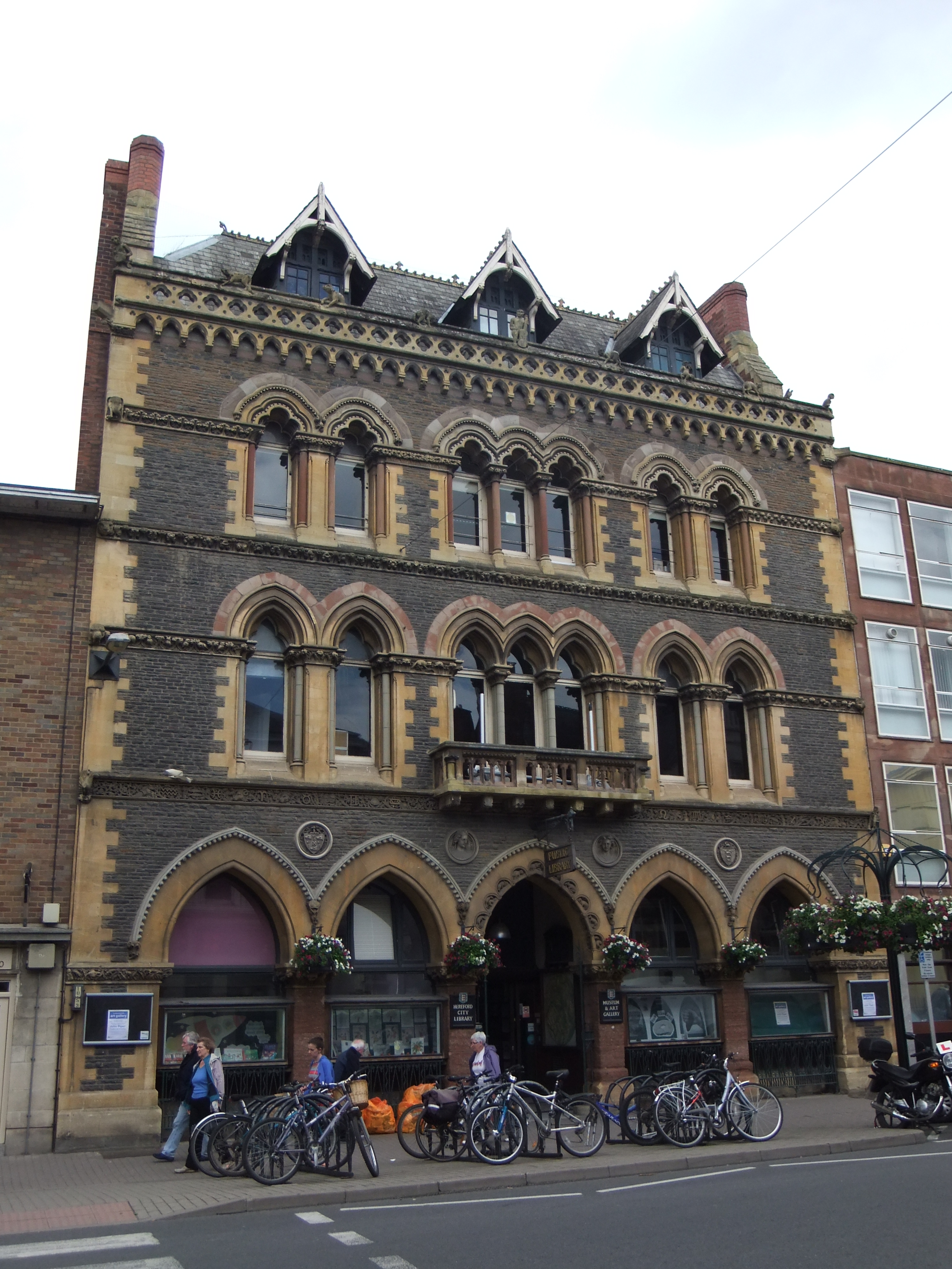 Hereford Library, Museum and Art Gallery building, England.